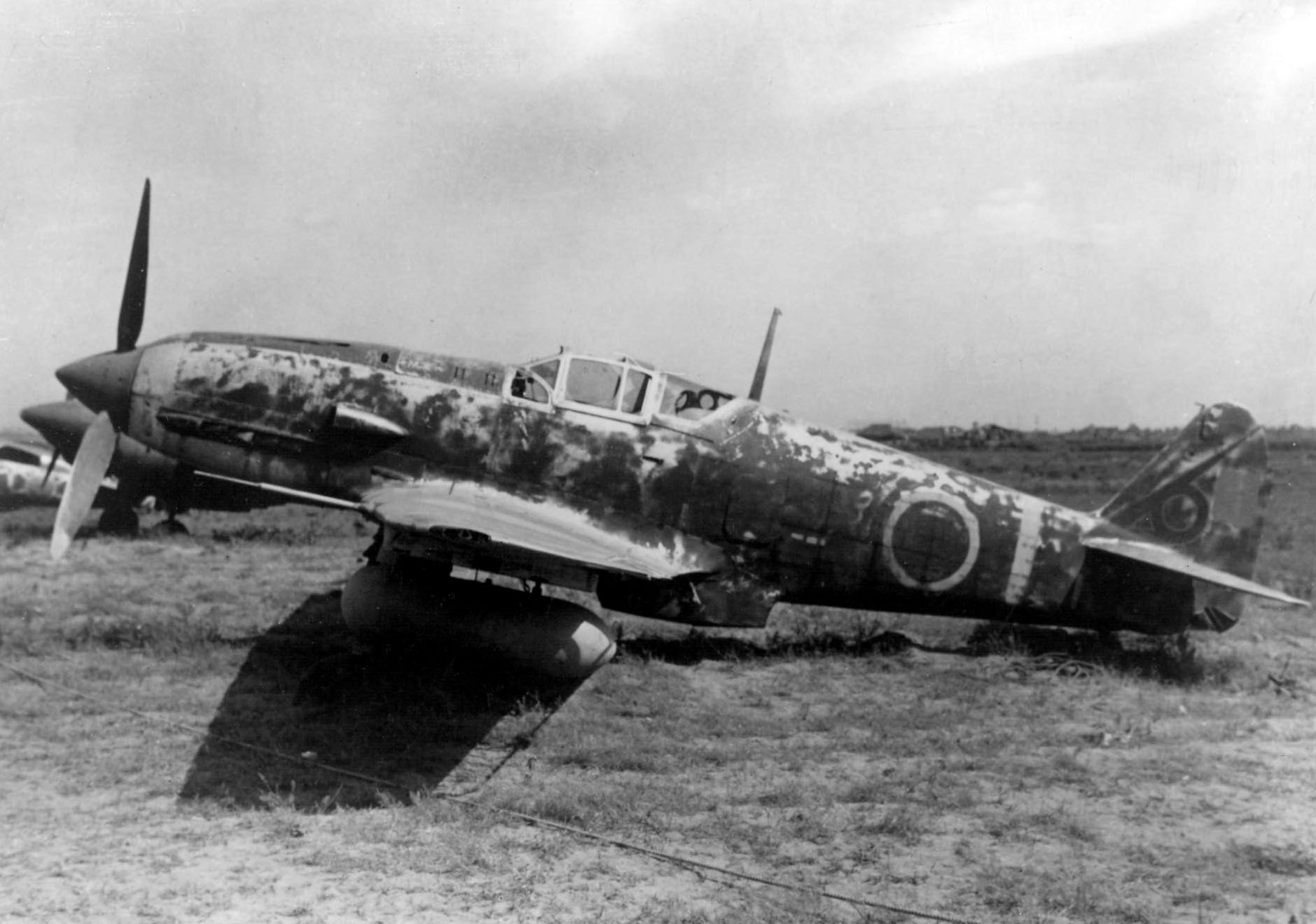 A Japanese Kawasaki Ki-61 Hien (Allied code name "Tony").